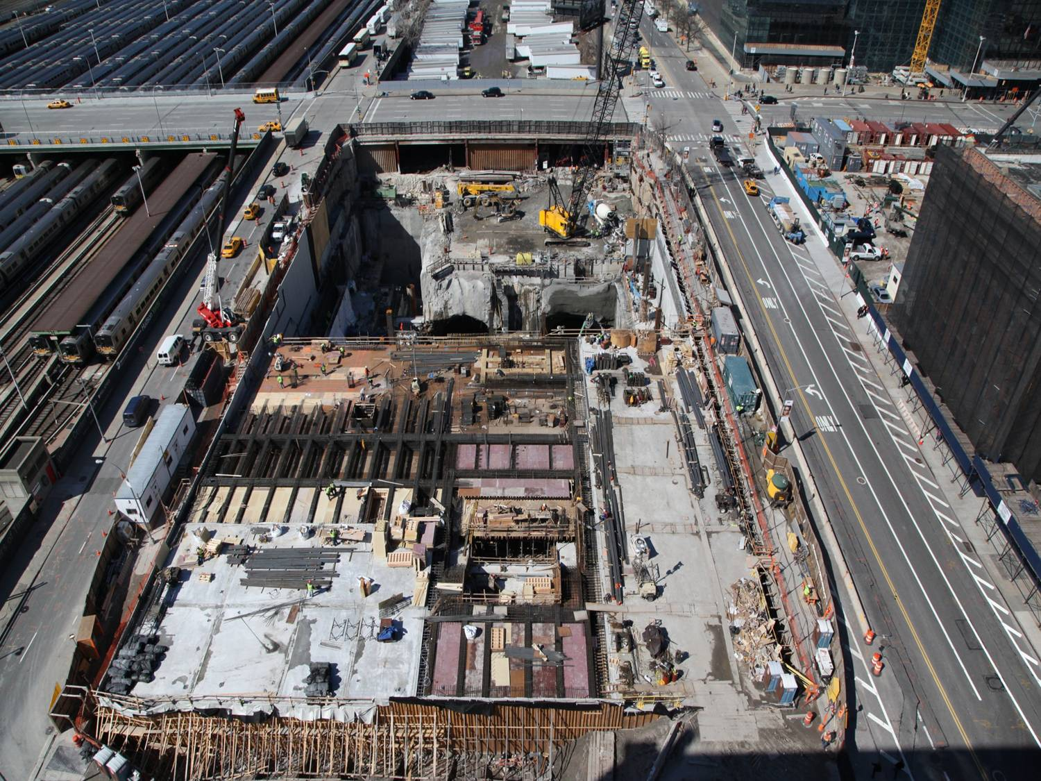 7 Extension, Site J, photographed in March 2012.